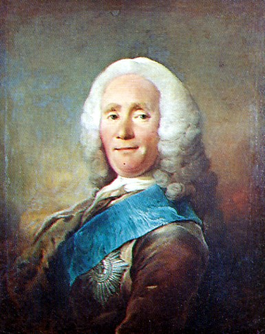 Johan Ludvig (von) Holstein (1694-1763), Danish Count, estate owner, and politician, etc.